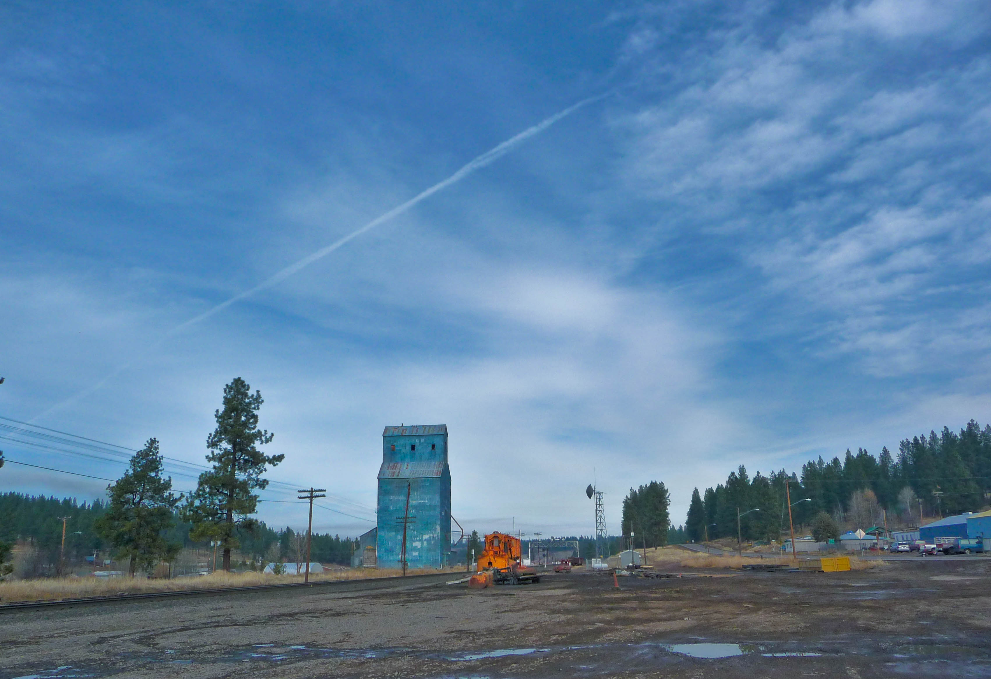 Grain elevator in Chiloquin, Oregon, USA